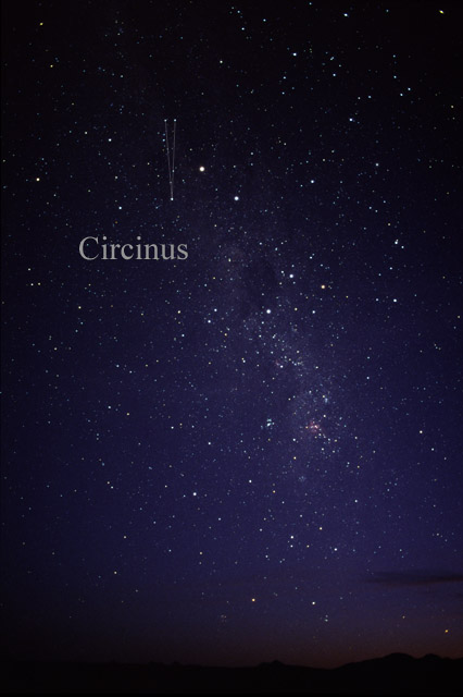 Photo of the constellation Circinus, the Dividers